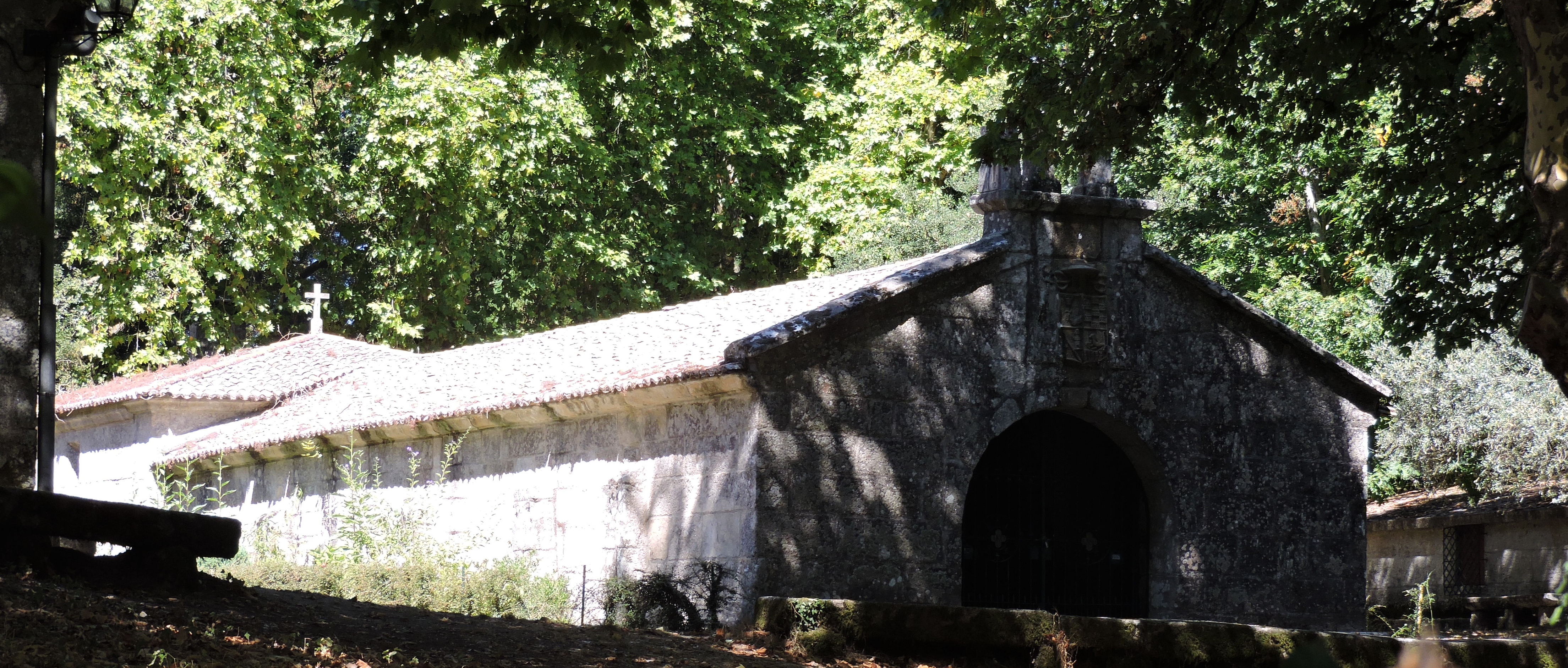 Monte Aloia (Galicia, Spain) - Ermita de San Xiao